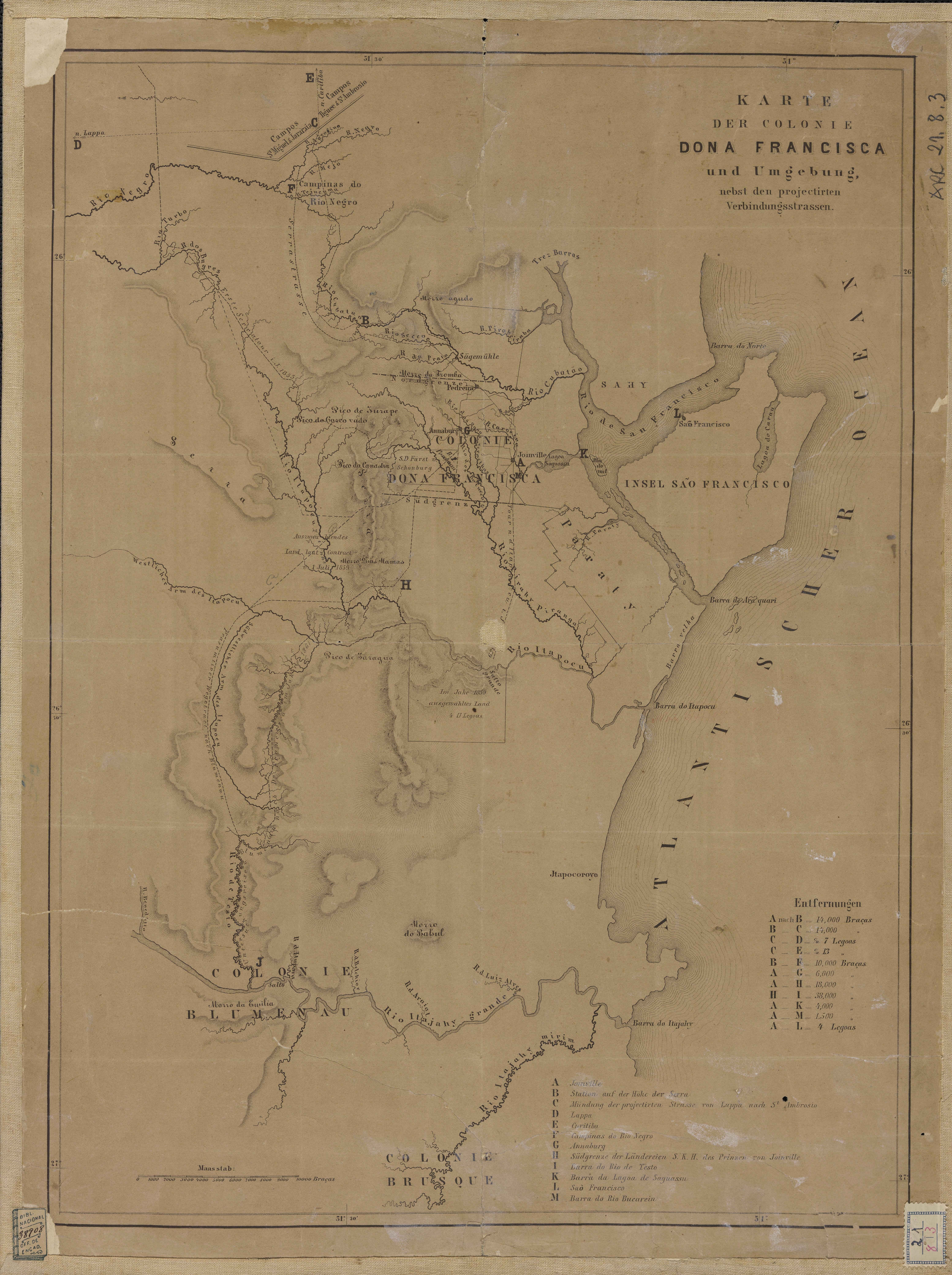 Karte der Colonie Dona Francisca und Umgebung, nebst den projectirten Verbindugsstrassen.